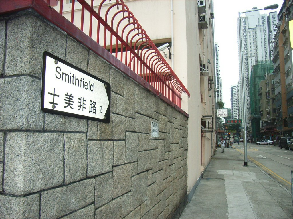 Smithfield 士美非路, Kennedy Town, Hong Kong (By KennedyTom).